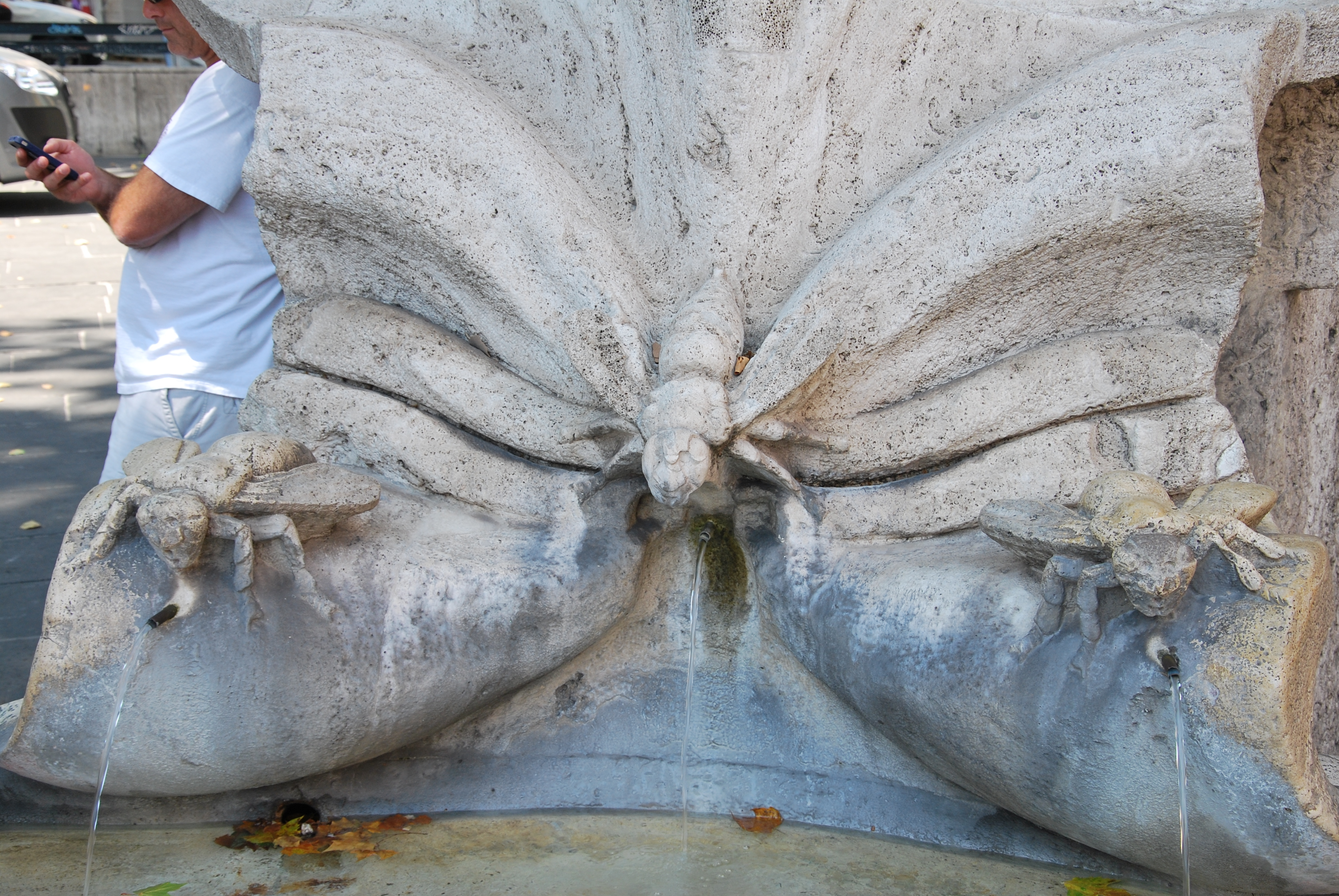 Bees on Fontana delle Api, Rome